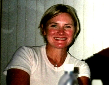 I am the author of this photo. I photographed her in 2003, when she had been in São Paulo for Trekkies 2 promotion.